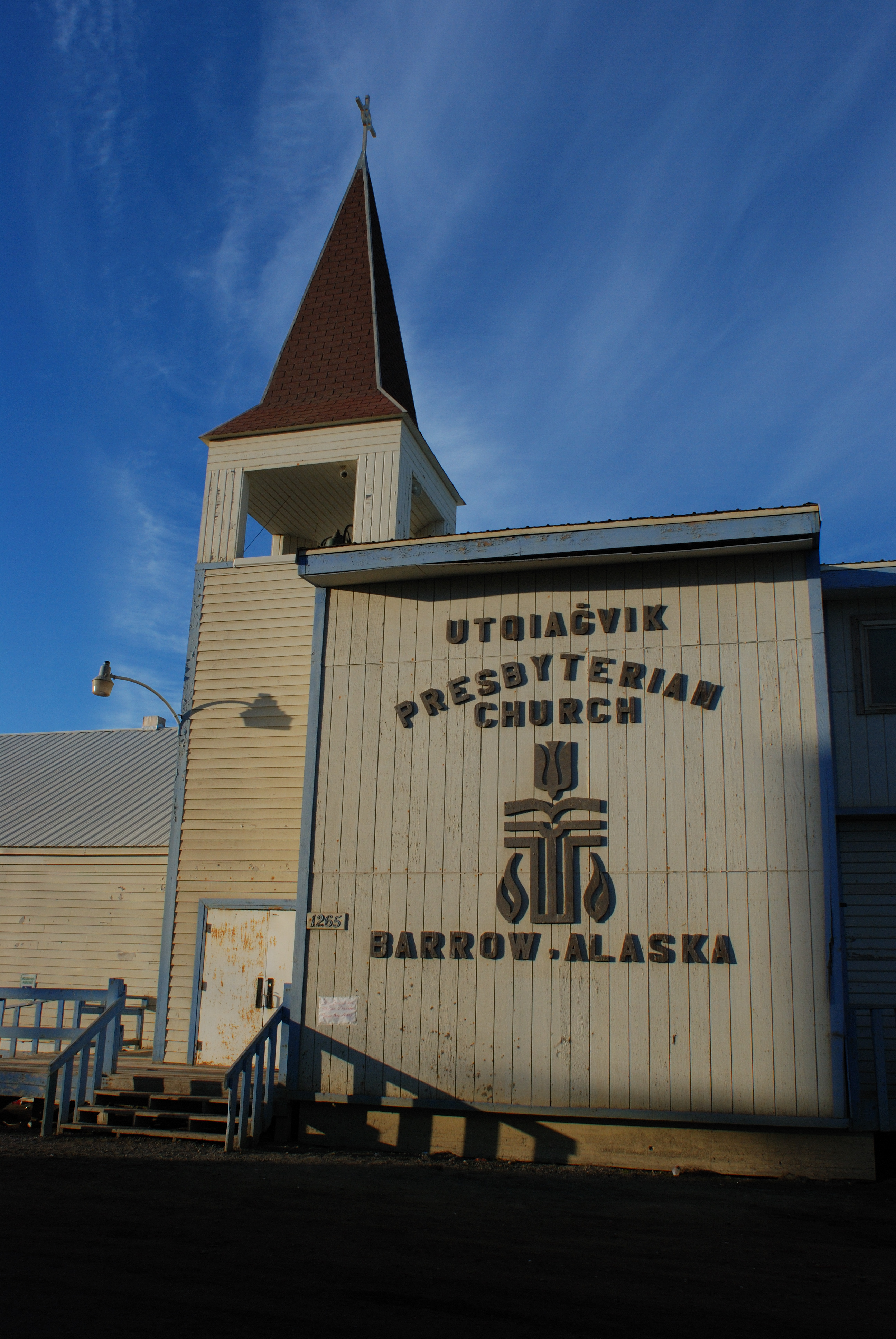 Church in Barrow, Alaska